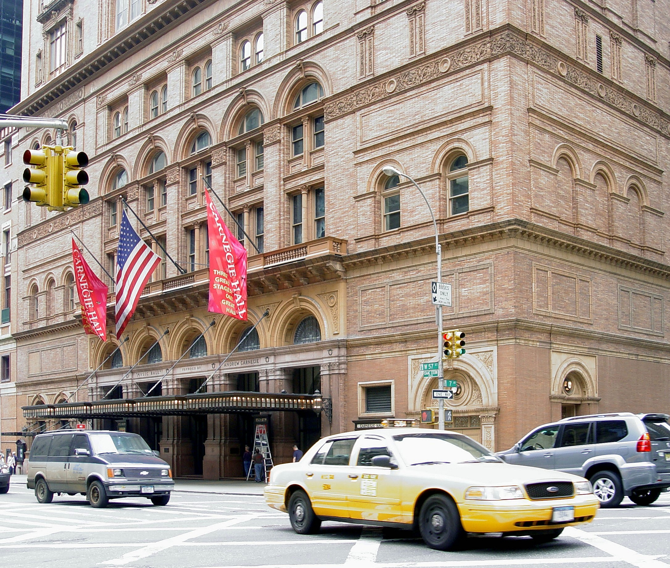 Fotografiert von Martin Dürrschnabel Carnegie Hall in New York City.